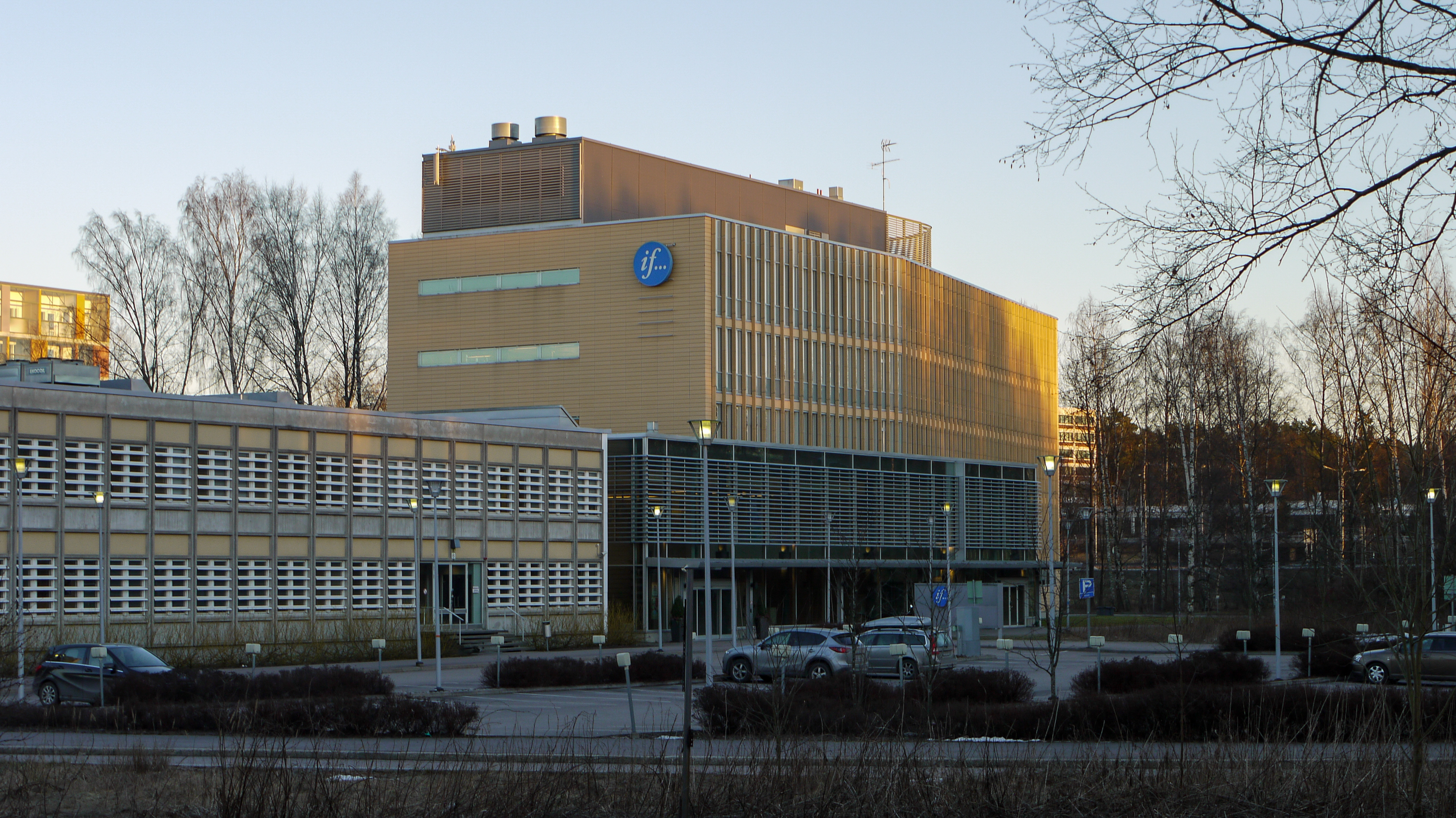 Headquarters of the insurance company If in Niittykumpu, Espoo, Finland.